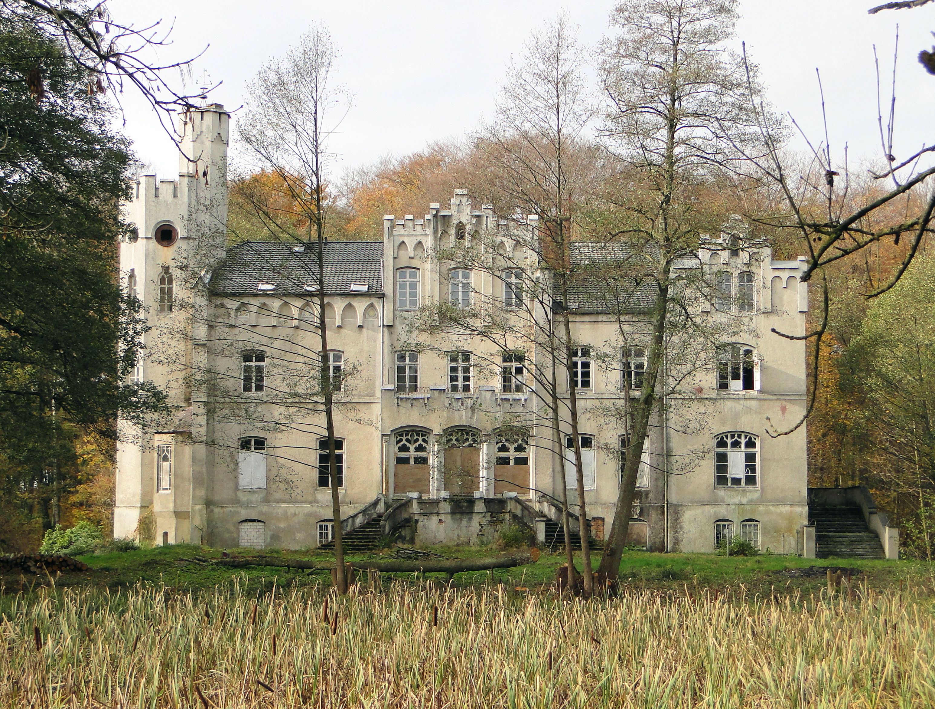 Manor house in Gresse, district Ludwigslust-Parchim, Mecklenburg-Vorpommern, Germany